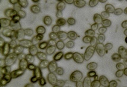 Kombucha Culture 400X sample taken from tea recently purchased "scoby" was floating in.